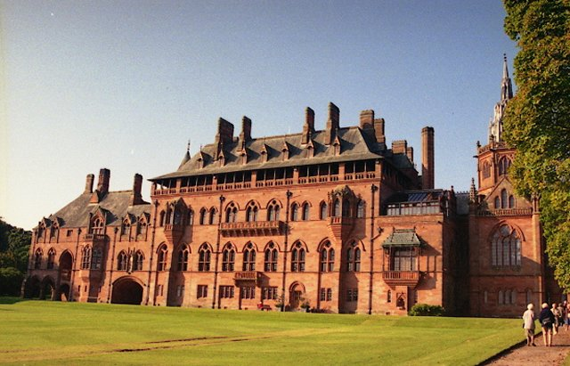 Mount Stuart House